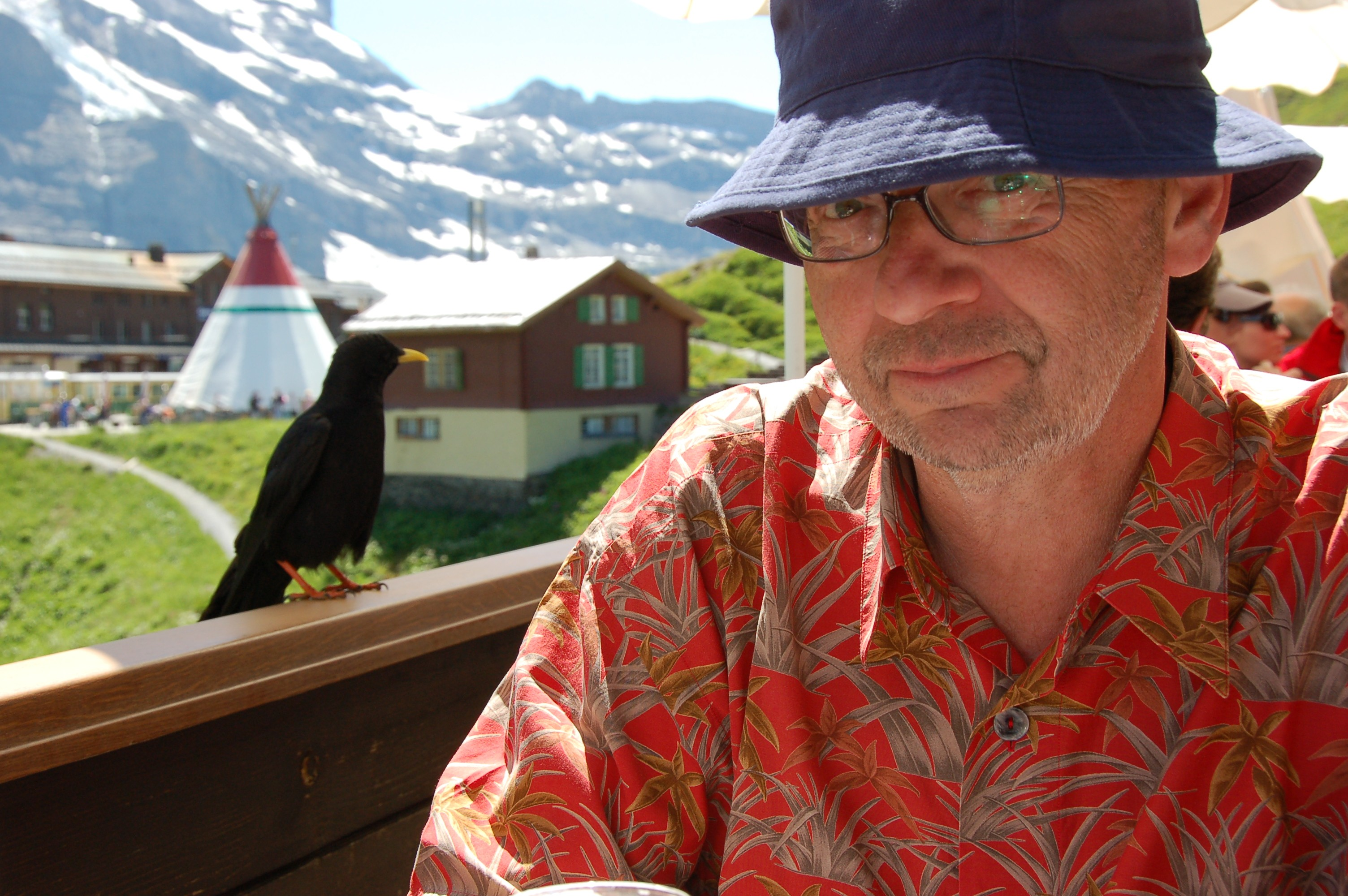 Walter Popp July 2008